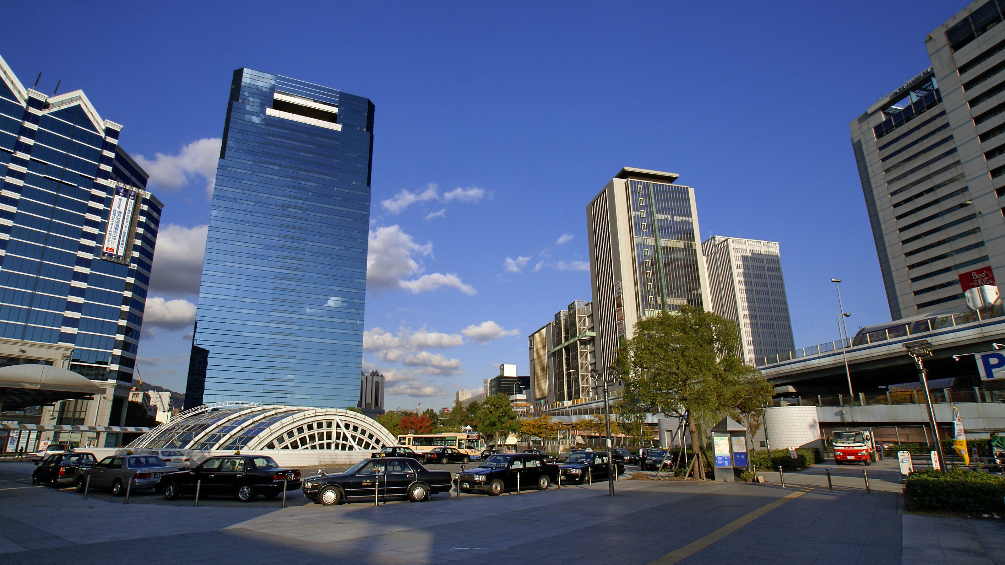 Harborland in Kobe, Hyogo prefecture, Japan